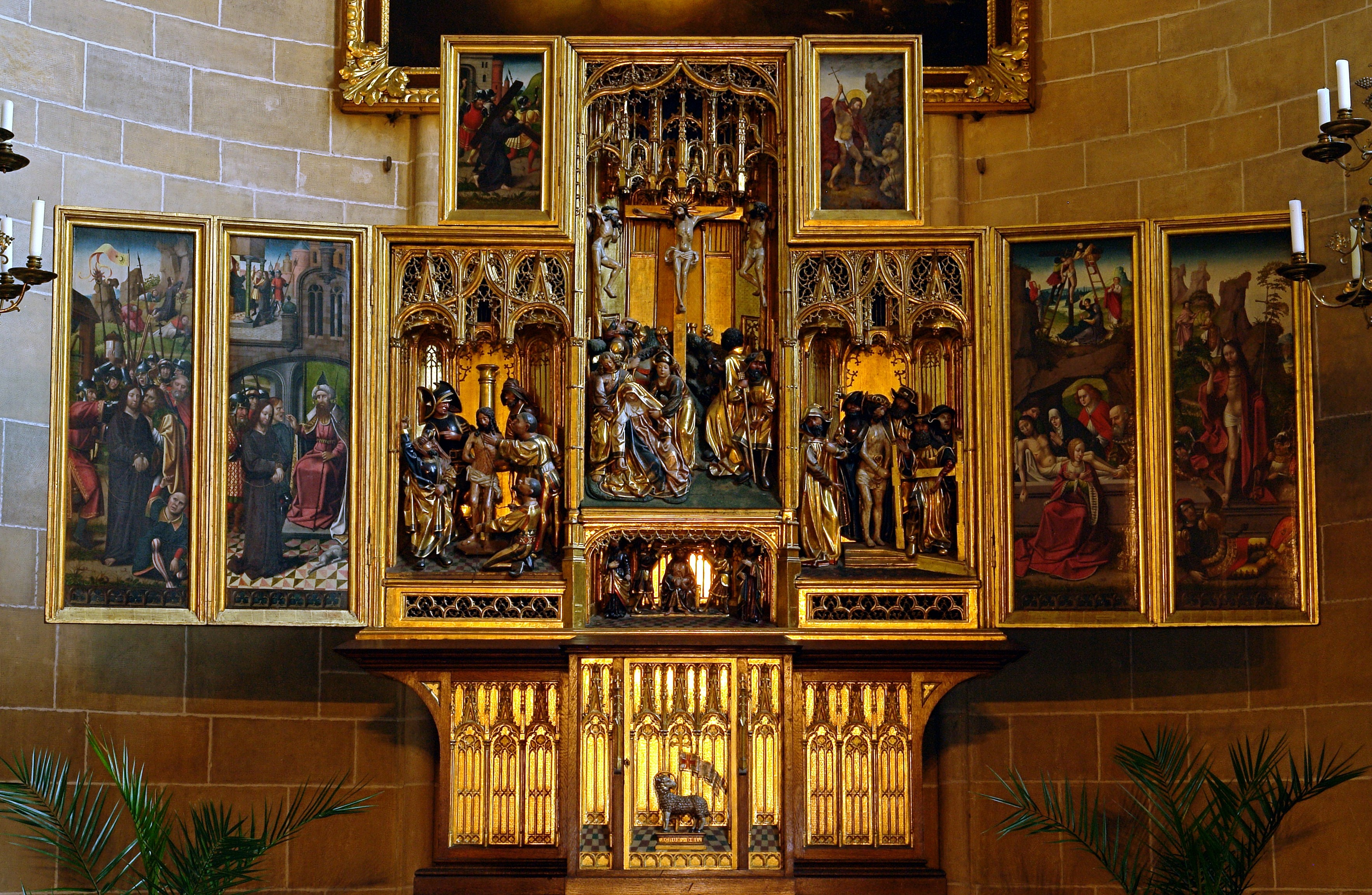 Altarpiece of the church of the Teutonic Knights (Deutschordenskirche) in Vienna, Austria. It was originally from the church of Our Lady in Gdańsk, Poland, sold to archduke Maximilian by the Prussian authorities. Flemish winged triptych attributed to the polychromer Jan van Wavere in 1520. The artists that made the woodcarvings and paintings are unkwown. The signature I. V. Wavere is stamped on to the small columns enclosing the central compartment. Vivid woodcarvings scenes from the Passion of Christ.